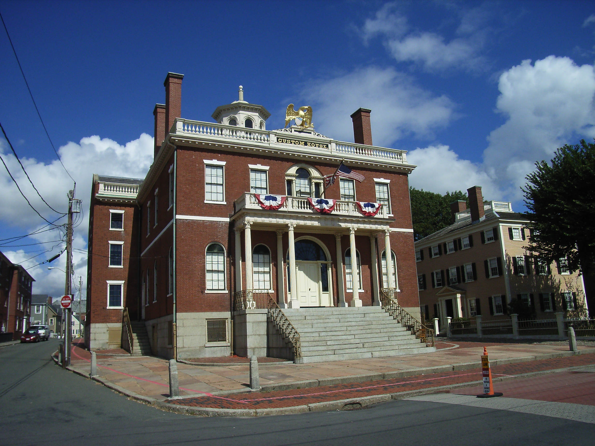 Custom House, Salem Maritime National Historic Site, Salem MA (USSLM)